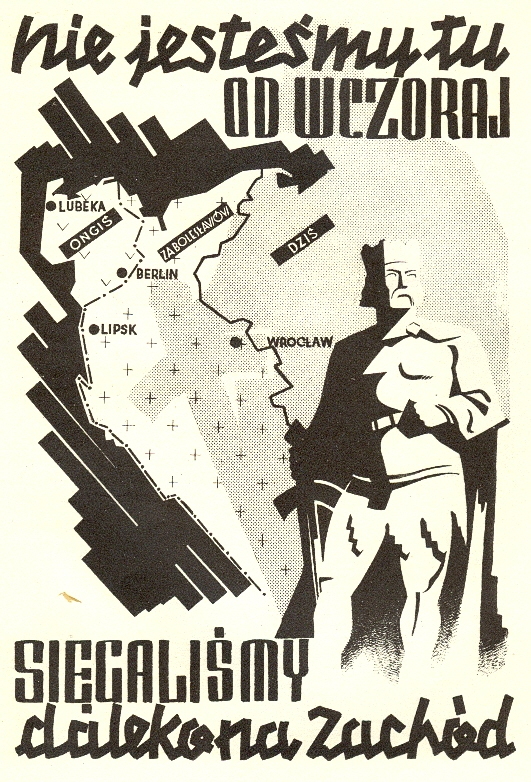 Polish Propaganda poster claiming German lands, comparing borders now and then: "We are not here since yesterday - once Lübeck and Berlin - Leipzig and Breslau belonged to Boleslaus - today (only Poland in 1939 borders) . Once we reached far west."